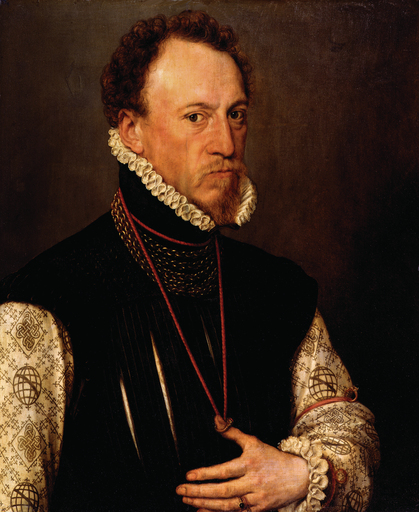 Sir Henry Lee